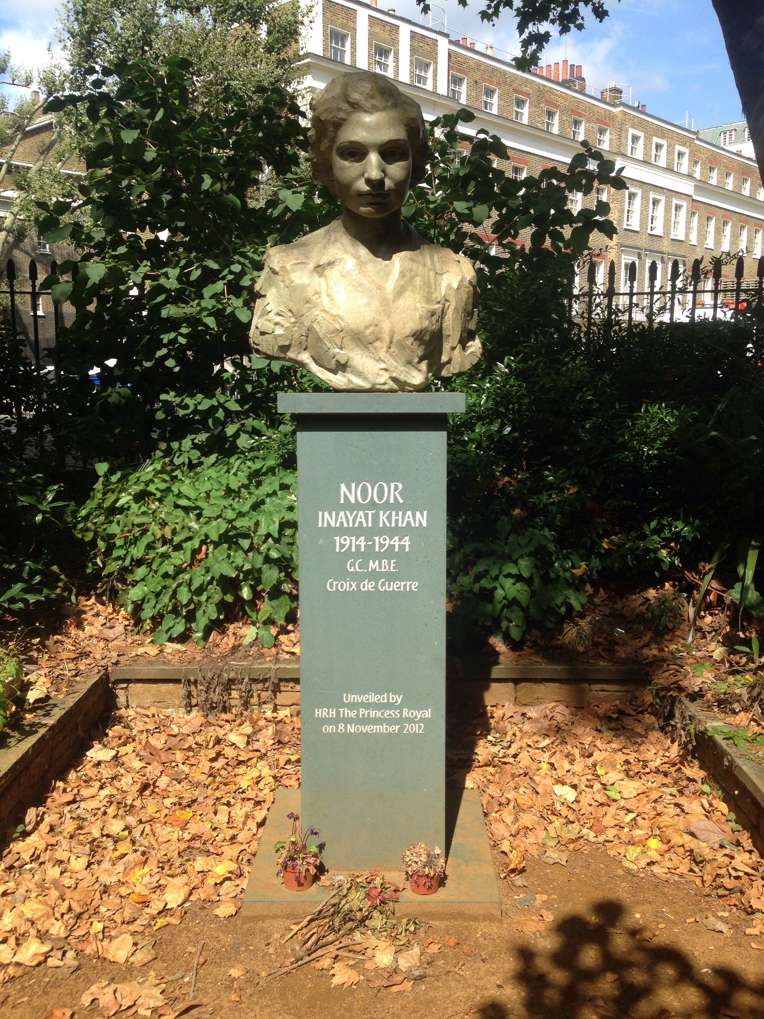 Bust of Noor Khan in autumn